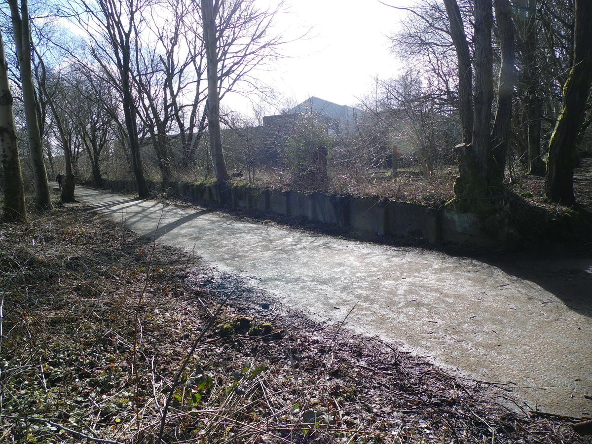 Photograph of the remains of Tottington Railway Station, taken whilst exploring the site as part of visiting the stations on the line. Only part of the platform remains, with a large chunk taken out to provide a footpath where the station building was situated.